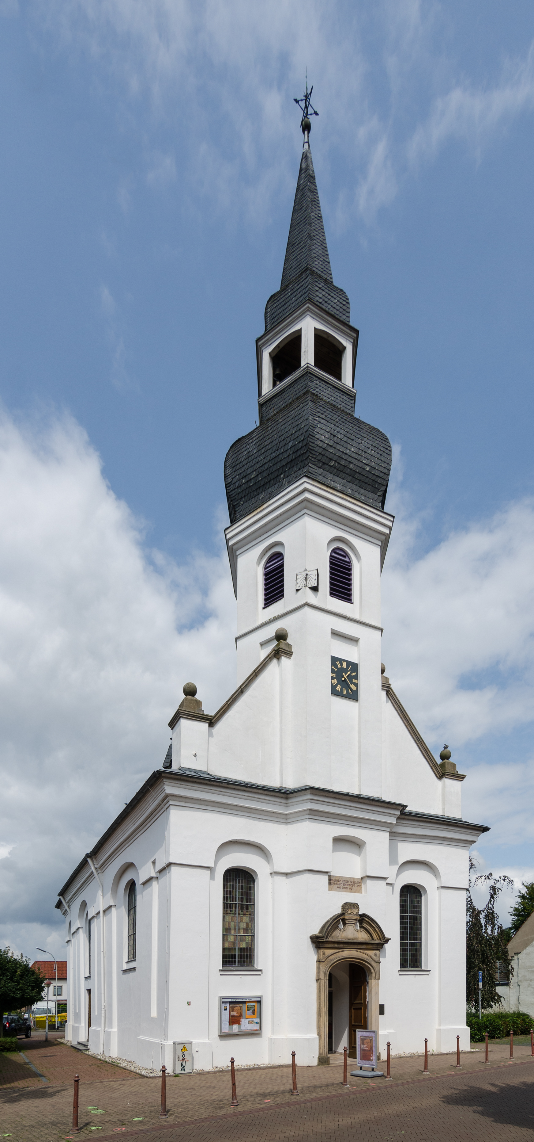 Alpen (North Rhine-Westphalia, Germany) – Protestant Church – southeast view